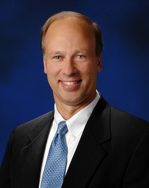 Portrait of Pennsylvania State Senator Mike Brubaker.